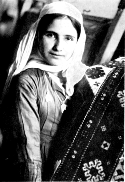 Carpetmaker Sadykhova with carpet maked by her. Baku, 1934